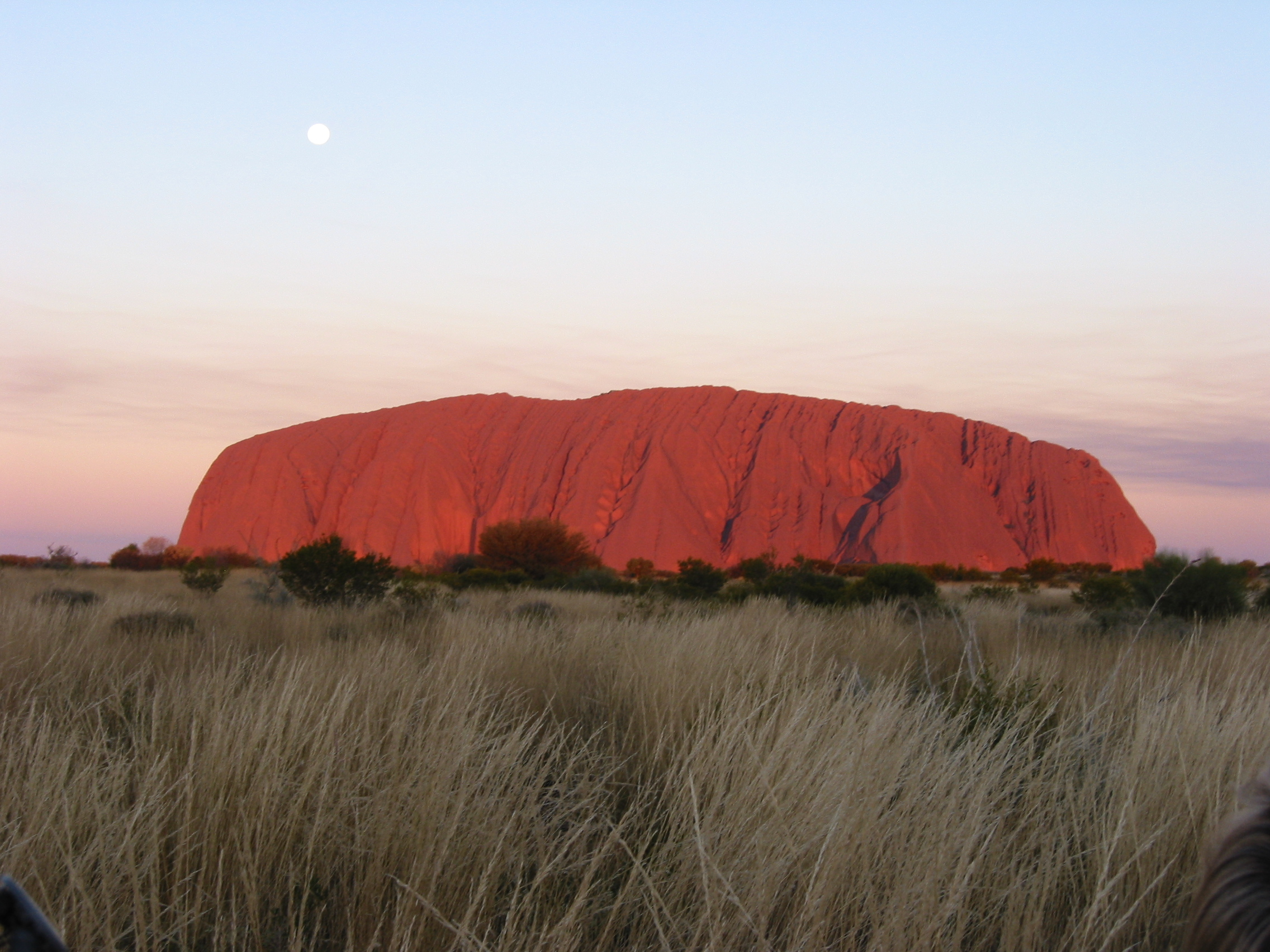 The disc in the sky is the moon. Compare the colour here to my photo from 5 minutes later..